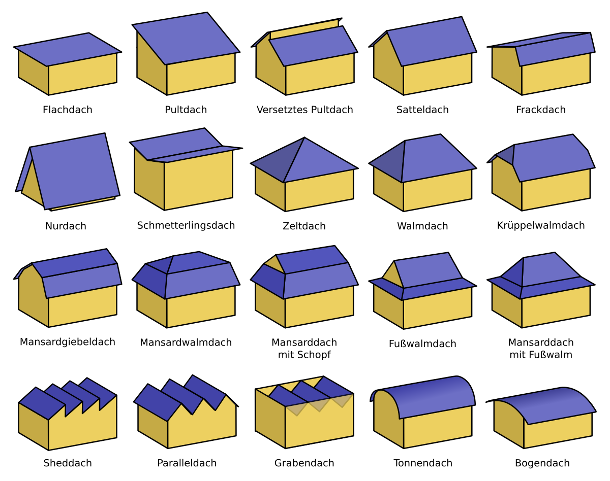 20 roof shapes with German names